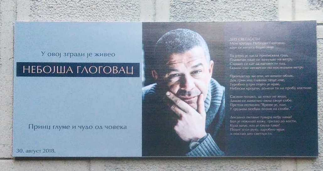 Commemorative plaque Nebojša Glogovac in Belgrad